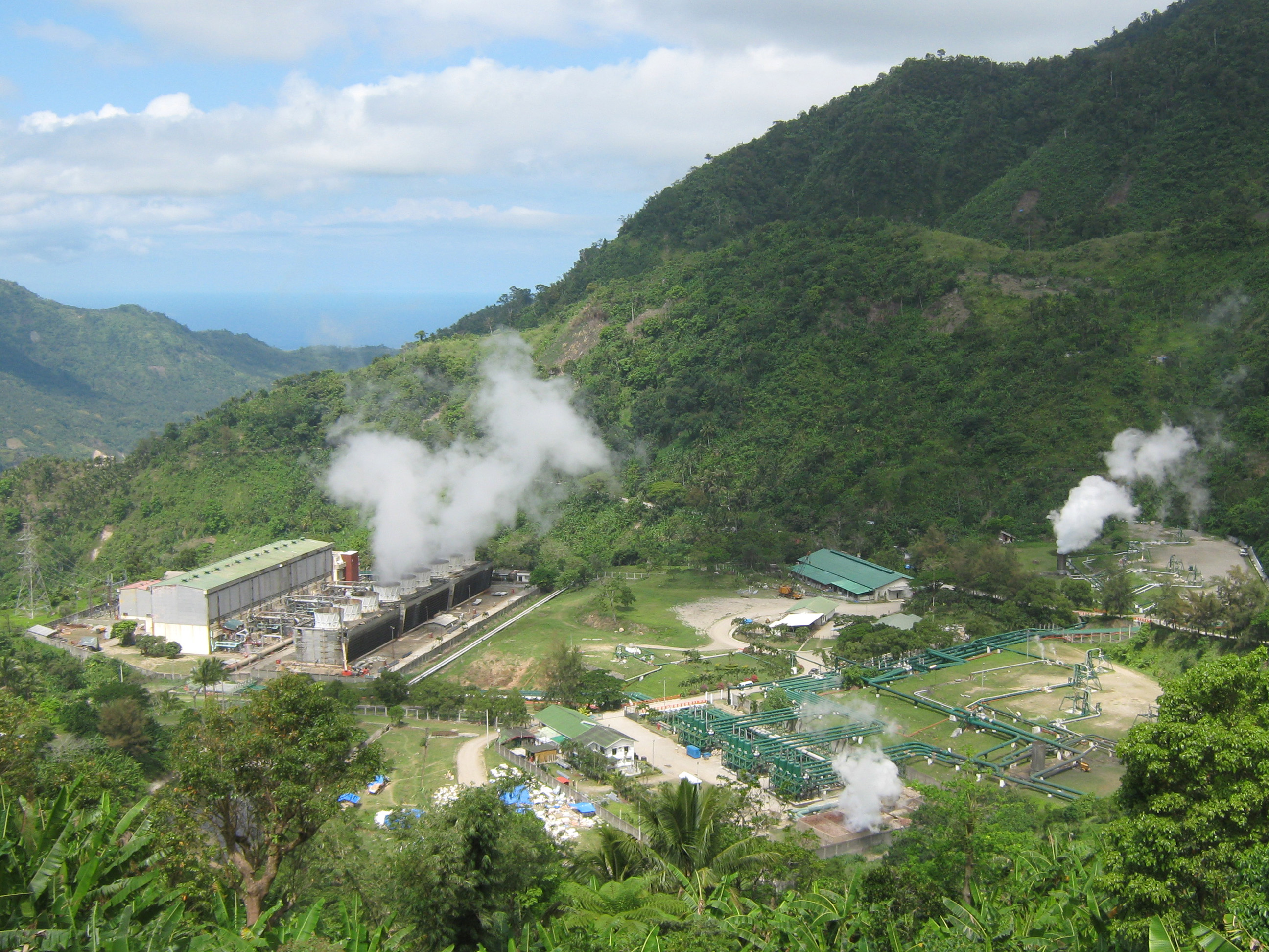 Palinpinon Geothermal power plant in Sitio Nasulo, Brgy. Puhagan, Valencia, Negros Oriental, Philippines